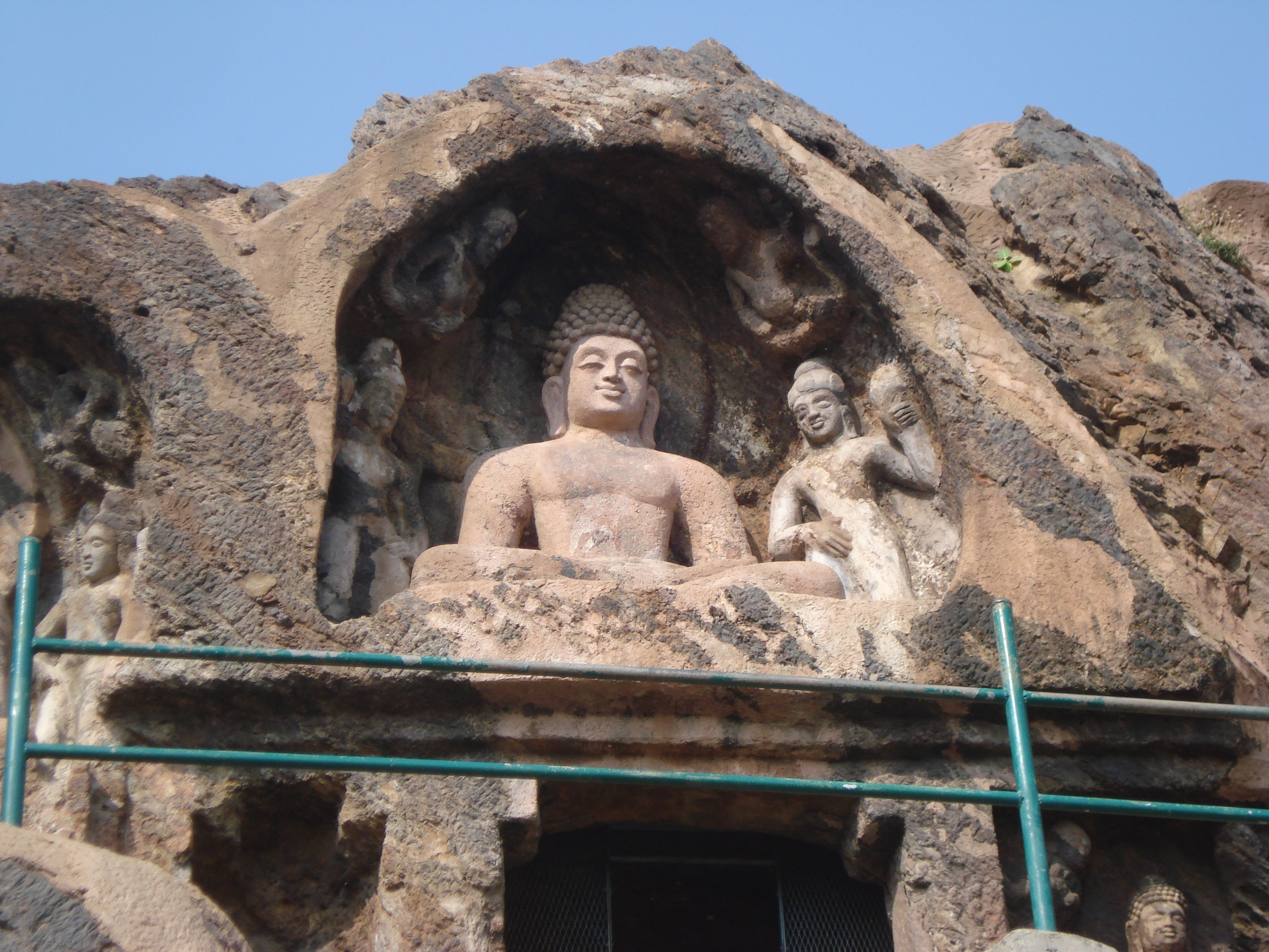 The statue of sitting budha at the entrance to the cave at Bojjannakonda